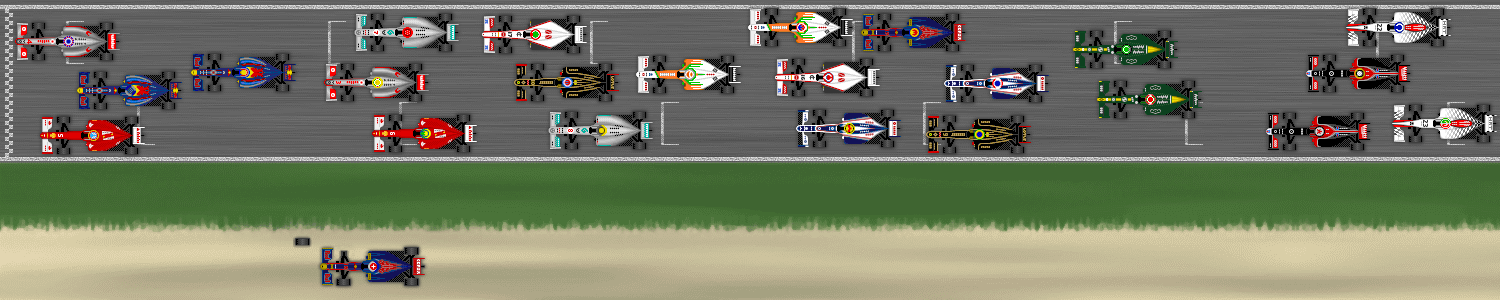 Race result of 2011 Japanese Grand Prix in Suzuka